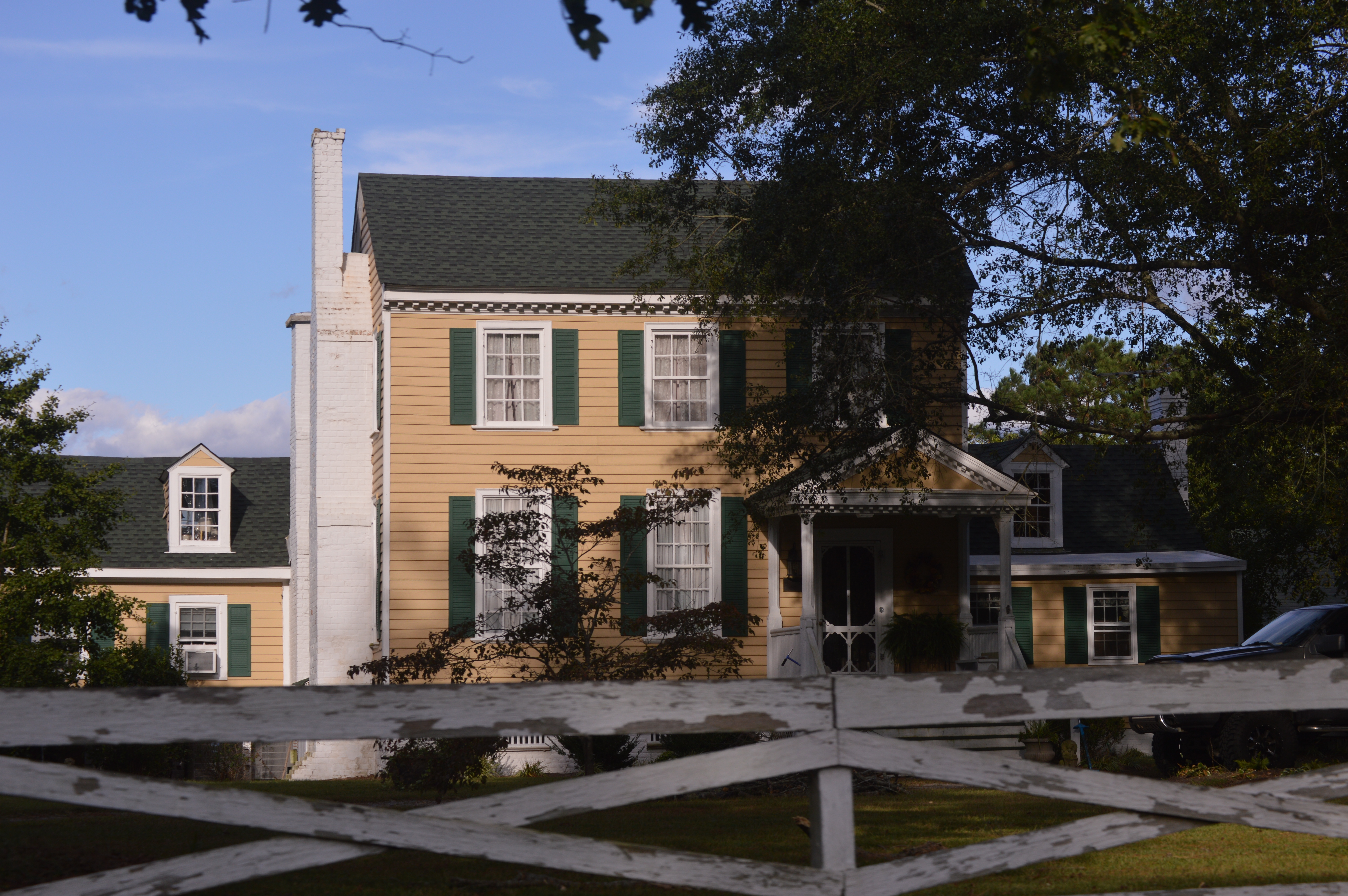 Front of the Oak Crest farmhouse, located at 34457 Lee's Mill Road east of Franklin in Isle of Wight County, Virginia, United States. Built in 1810, it is listed on the National Register of Historic Places.